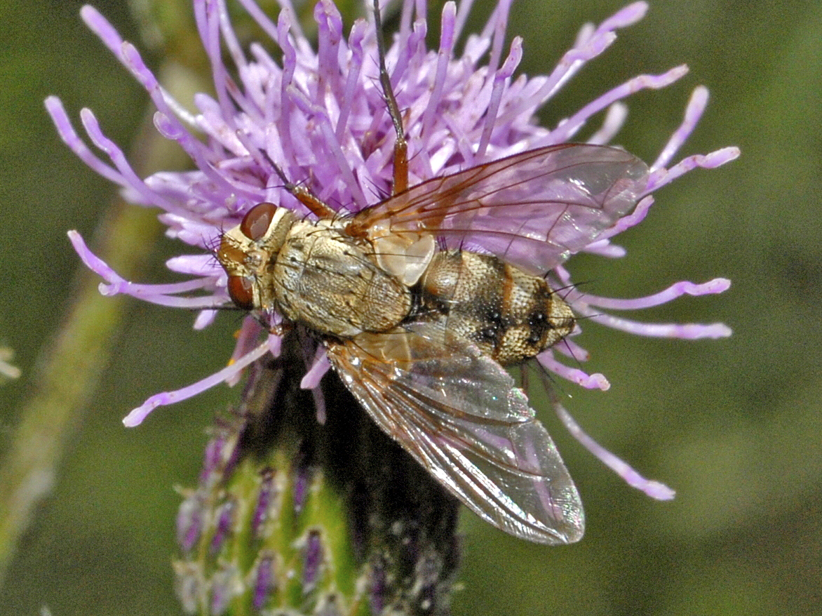 Prosena siberita. La Thuile, Aosta, Italy